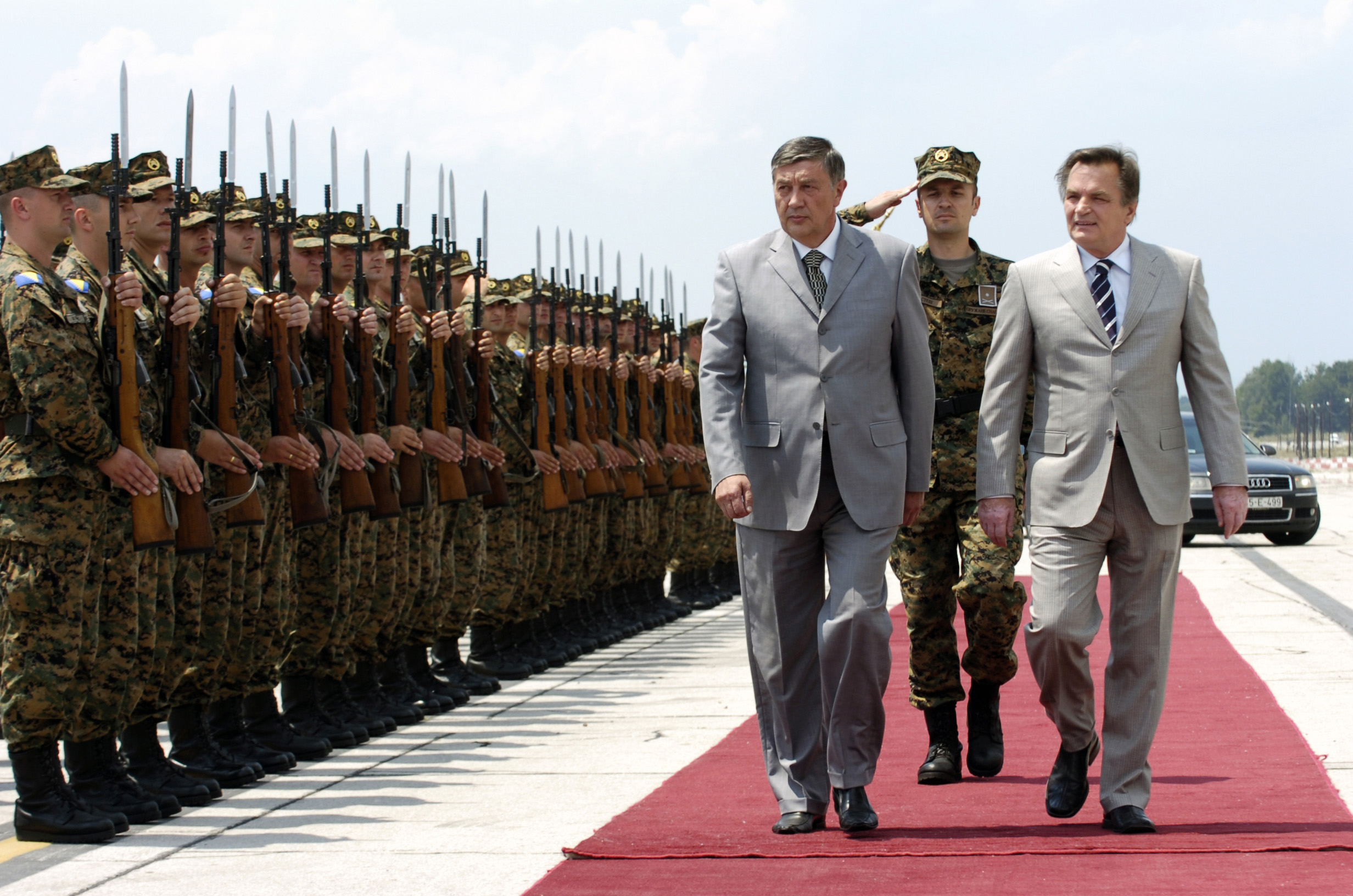 President Nebojša Radmanović and President Haris Silajdžić of Bosnia-Herzegovina arrive at Eagle Base, Bosnia, June 30, 2007, for the turnover of the base from the United States to the government of Bosnia-Herzegovina. More than 100,000 active duty and reserve members have served at Eagle Base since it opened 12 years ago. (U.S. Army photo by Staff Sgt. Jim Greenhill) (Released)